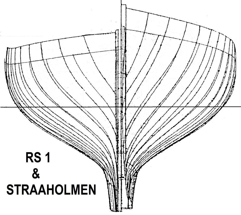 RS 1 Colin Archer and pilot boat Straaholmen